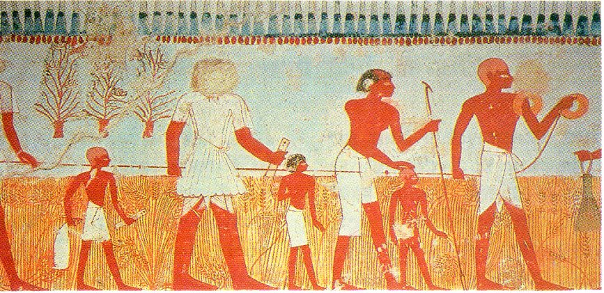 Measuring and recording the harvest is shown in a wall painting in the Tomb of Menena, at Thebes (18th dynasty).